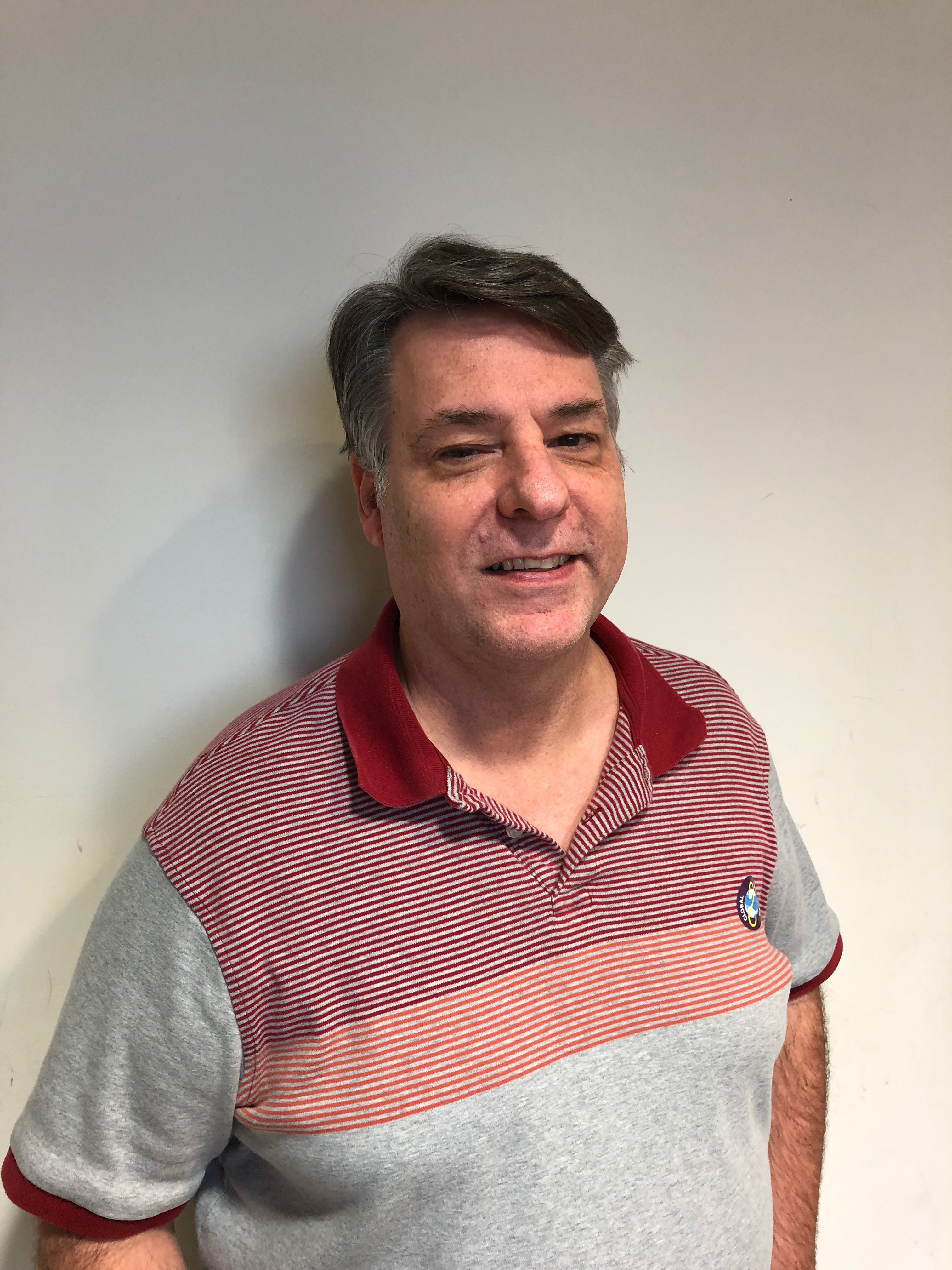 Game Developer Bruce Nesmith. Photo taken at University of Baltimore - Universities of Shady Grove, during Global Game Jam 2018.